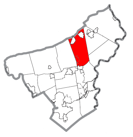 A map of Northampton County showing Plainfield Township, Pennsylvania highlighted on the map.